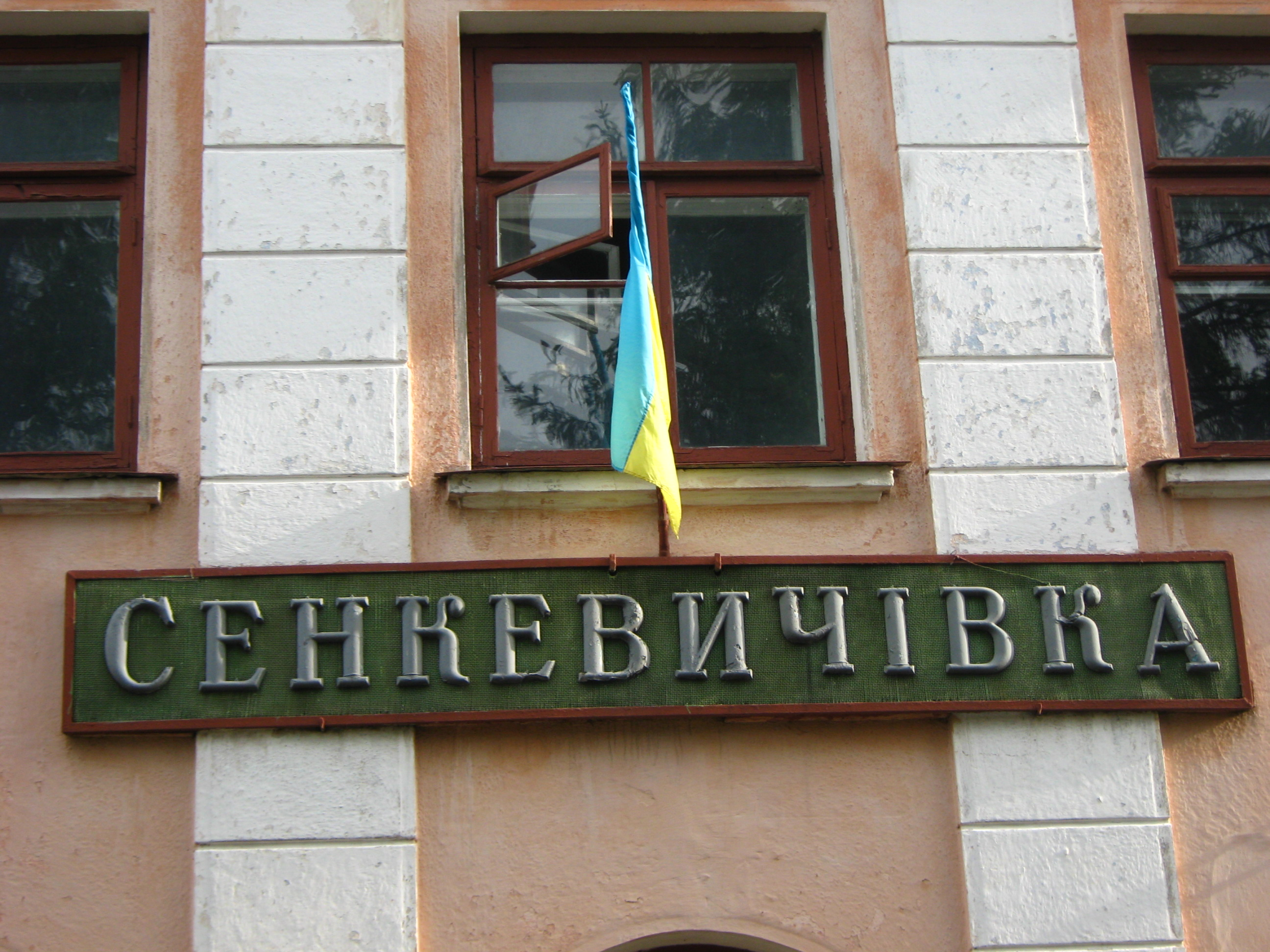 Senkevychivka7